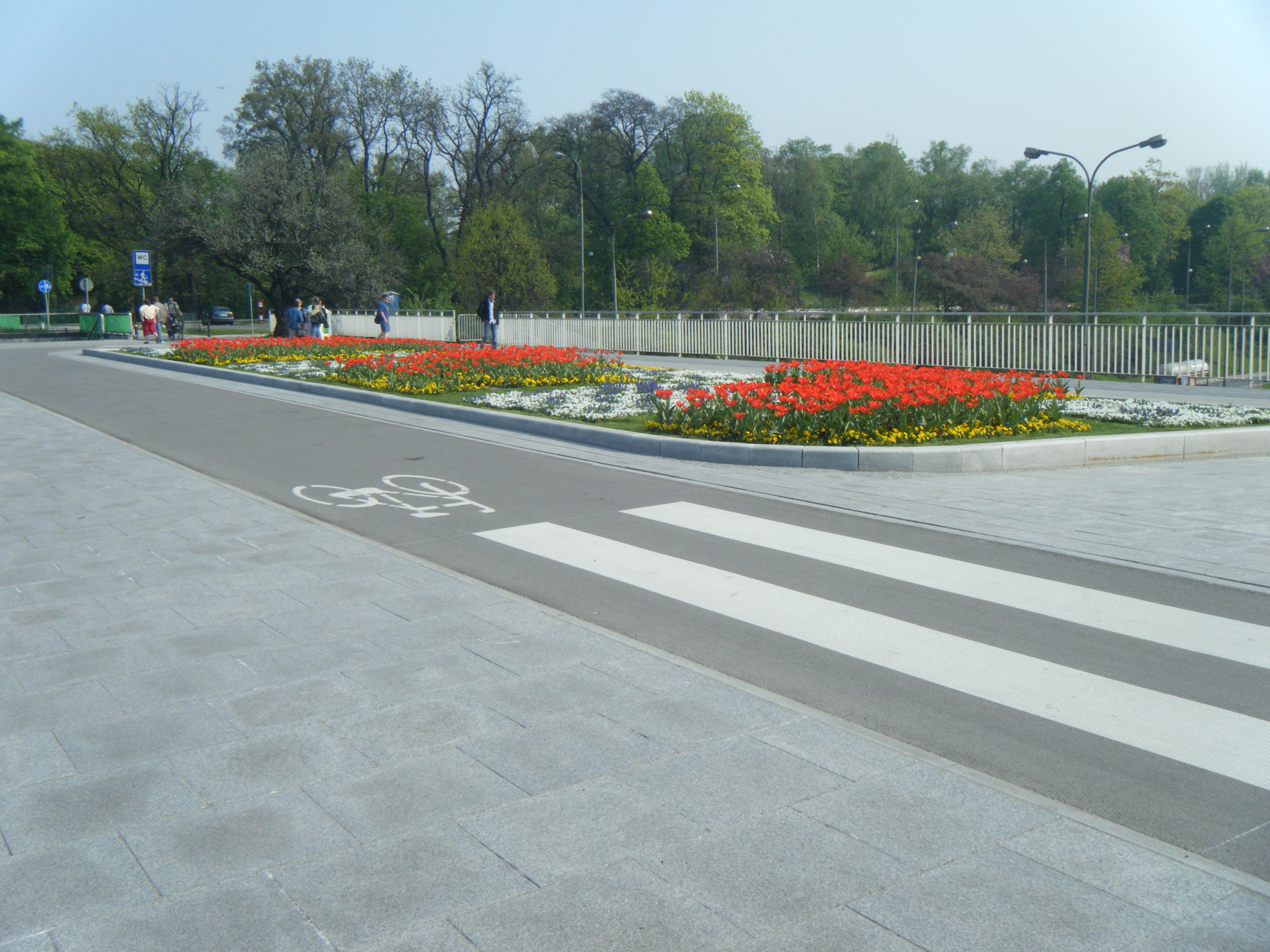 The bikeway at Na Rozdrożu Square in Warsaw